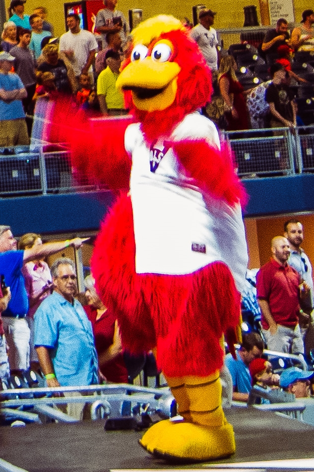 Booster, mascot for the minor league Nashville Sounds, during a game at First Tennessee Park on July 30, 2015